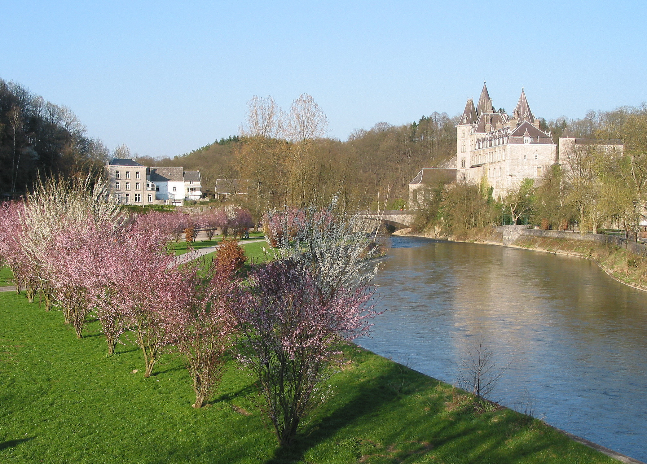 Durbuy (Belgium), the Ourthe river and the castle.